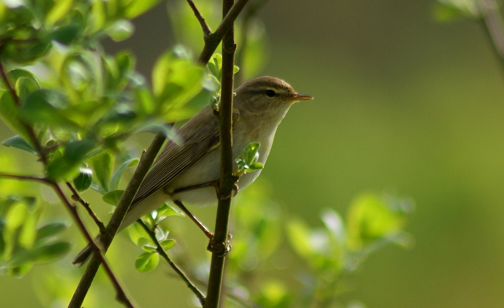 Willow Warbler (Phylloscopus trochilus)